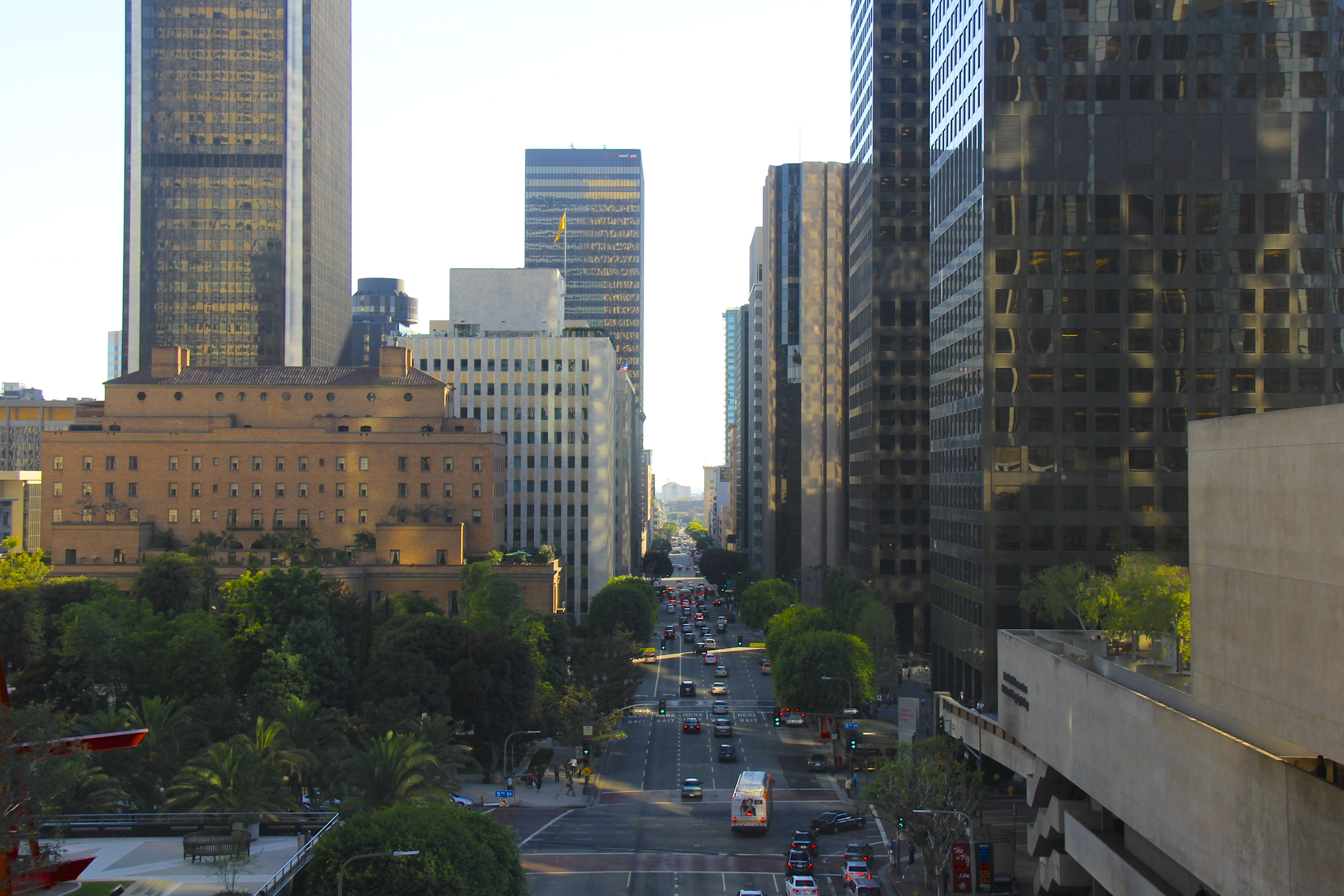 The California Club, 538 South Flower St. Downtown Los Angeles